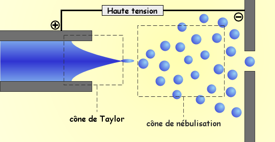 Mass spectrometry, ionization source, electrospray